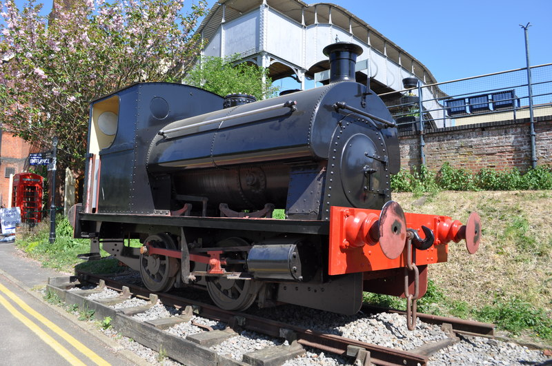 0-4-0 Saddle Tank - No. 2039 'Jeffrey', near to Wakes Colne, Essex, Great Britain. Two outside cylinders, 10" x 15" stroke Weight: Empty 15 tons, loaded 18 tons Driving wheel diameter: 2' 9" Tank capacity: 475 gallons Boiler pressure: 180 lbs per square inch Tractive effort: 6955 lbs Built in 1942 by Peckett & Sons of Avonside Engine Works, Bristol, 'Jeffrey' was one of their 'R' class locomotives. This locomotive last worked at Glenwydd Iron Foundry, Ironbridge, Shropshire in 1962. Latterly it apparently ran without its coupling rods, technically making it a 2-2-0 tank. The rods were found in a shed at the iron foundry prior to its purchase. It was stored at Triad, Bishops Stortford, for some years before its arrival at Chappel in June 1981. The motion was overhauled, but the boiler needs a heavy repair before the locomotive could be steamed. No.2039 has been tidied up and repainted for static display as a mascot for the East Anglian Railway Museum. From Link